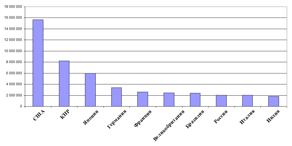 The ten largest economies in the world, measured in nominal GDP (millions of USD), according the International Monetary Fund, 2012